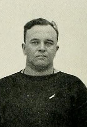 AA Mason, Tulane